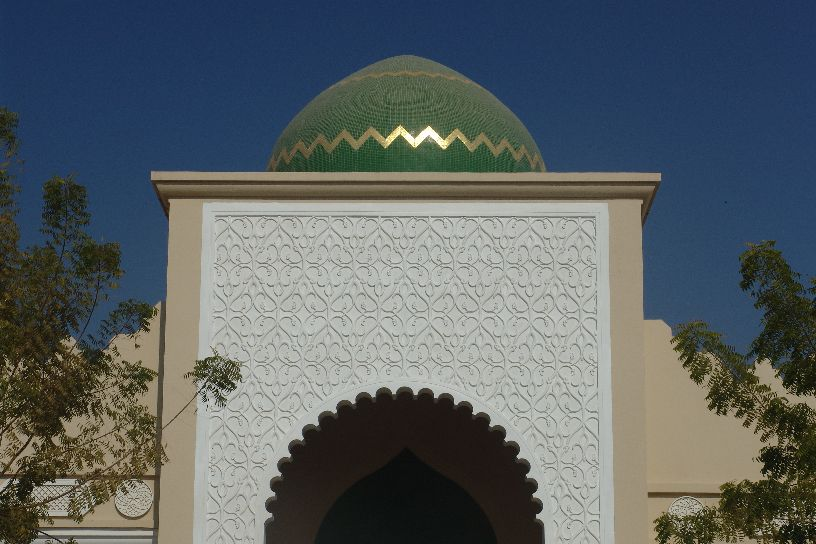 The dome and archway of a prominent mosque in Dukhan on the west coast of Qatar.